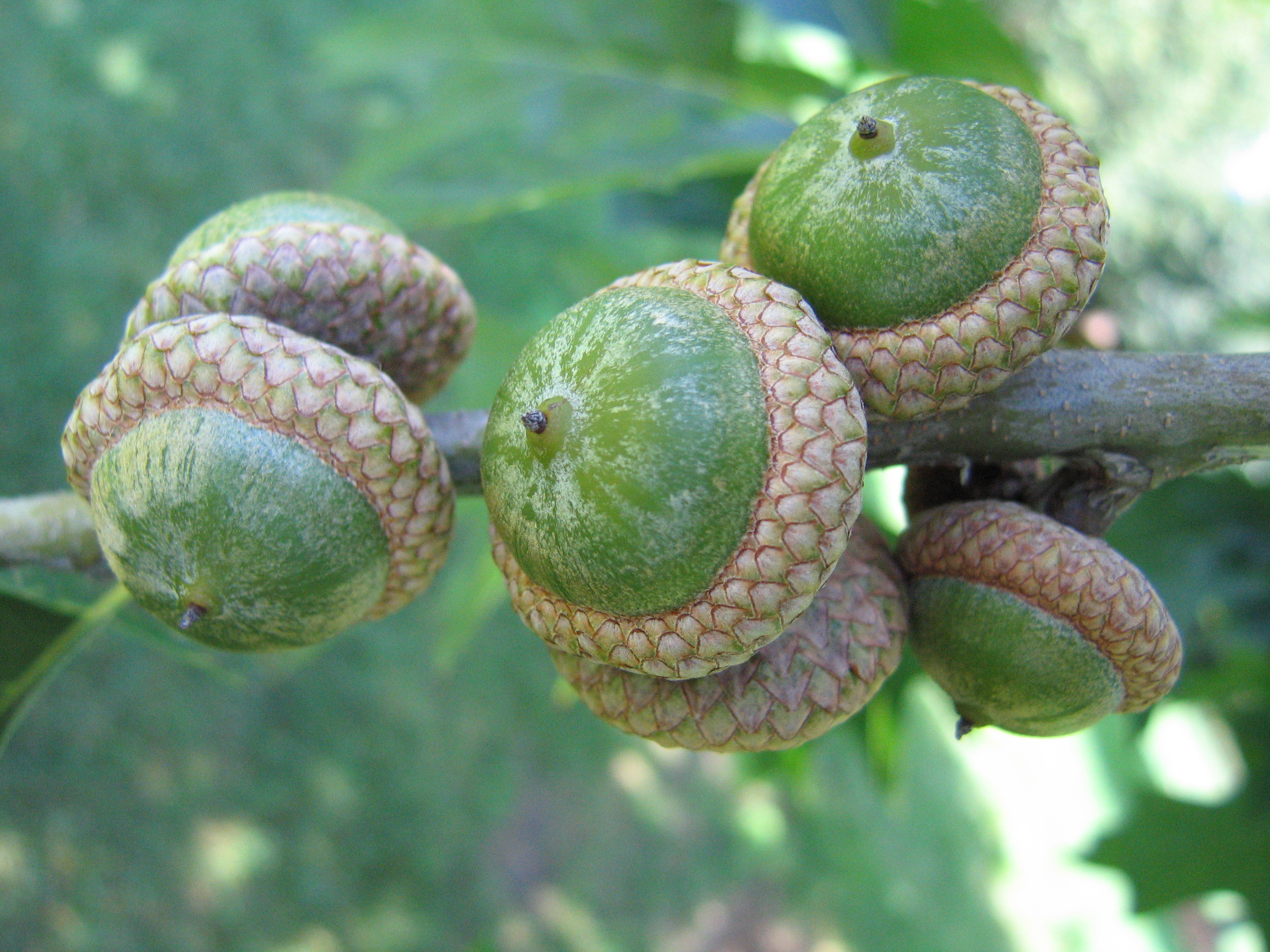 A group of acorns.